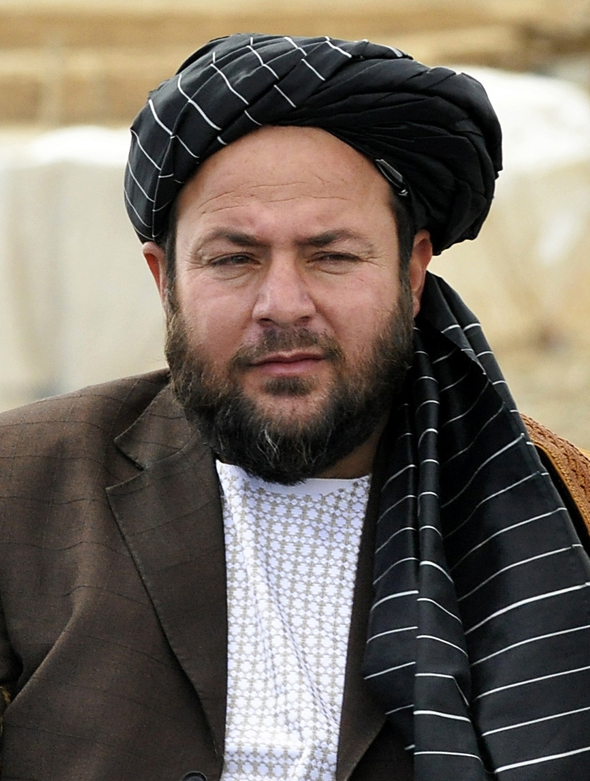 Cropped photograph of Uruzgan Provincial Governor Amir Mohammad Akhundzada (distinct from Helmand governor Sher Mohammad Akhundzada, his brother).